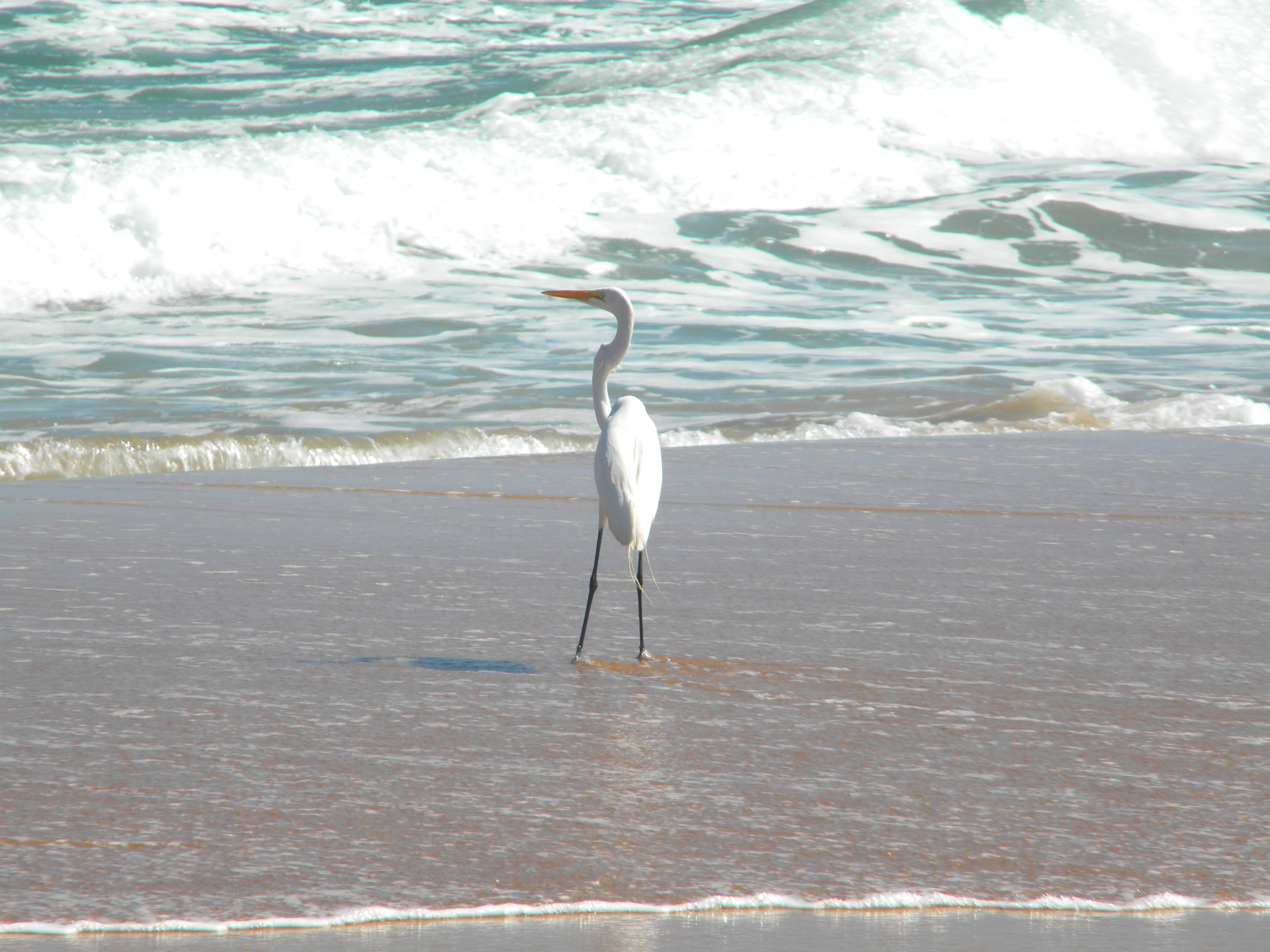 Great Egret (Andrea alba) at San Miguel Beach, in the western entrance of the Northeast Ecological Corridor.